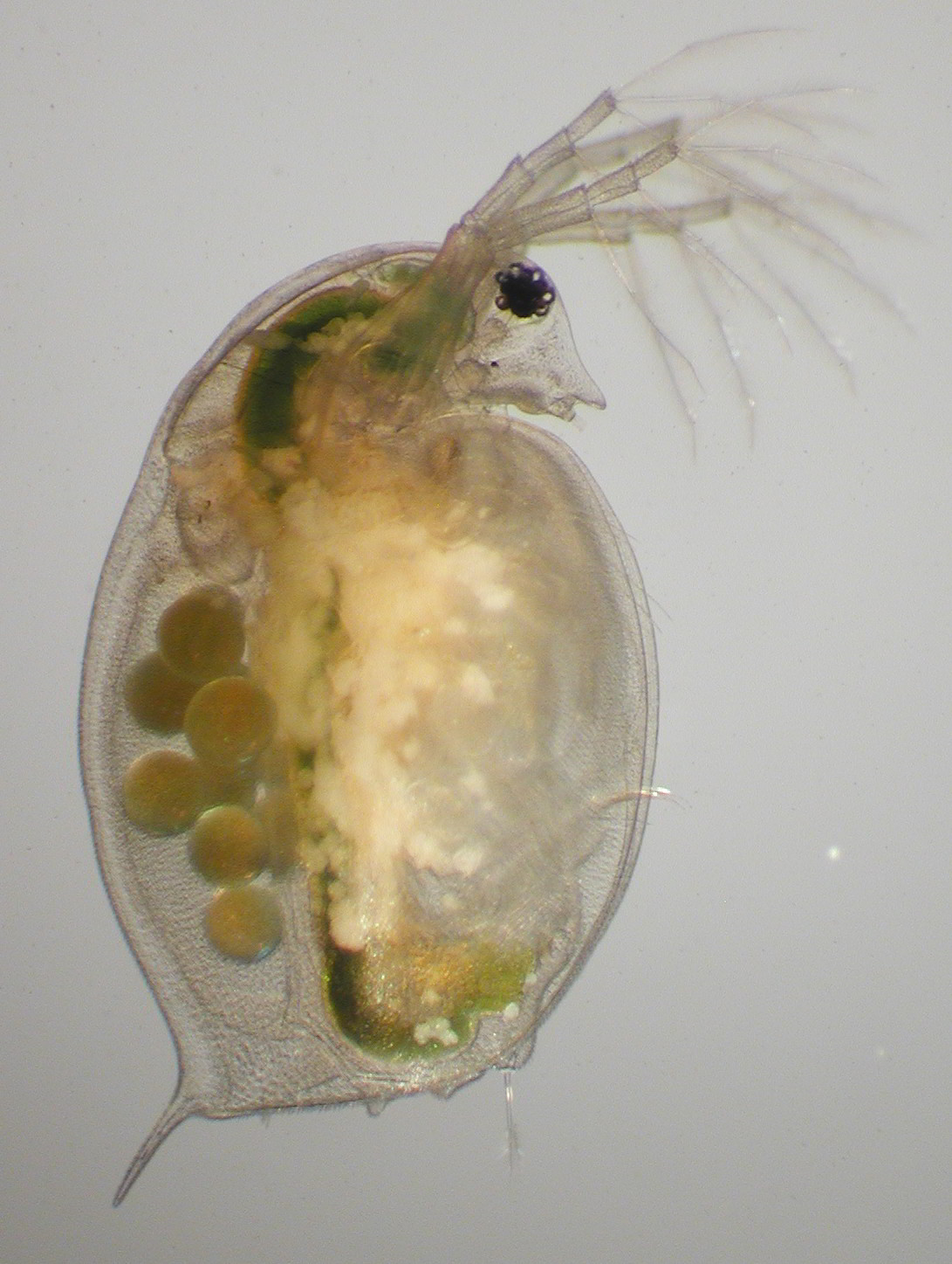 Adult female Daphnia magna infected with the microsporidium Hamiltosporidium magnivora. The female is about 3.5 mm long and carries a clutch of asexual eggs.